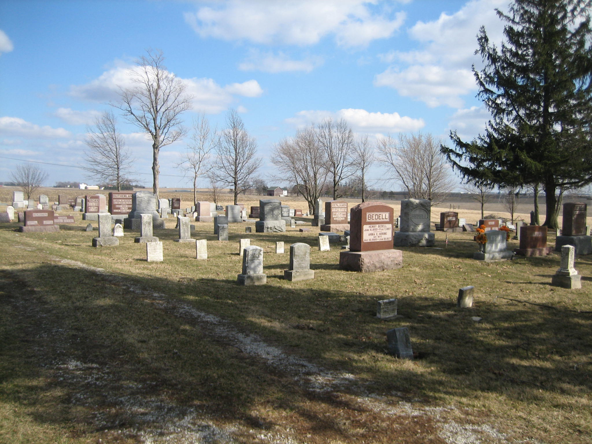 Benjaminville Friends Meeting House and Burial Ground, 9 miles east of Bloomington, Illinois, near the small community of Holder, Illinois. National Register of Historic Places.